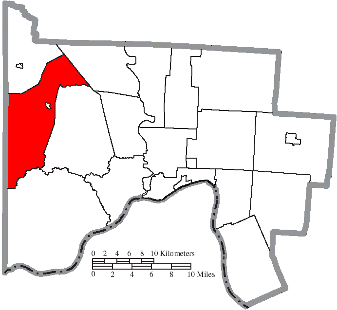 Map of the municipal and township boundaries of Scioto County, Ohio, United States, as of the 2000 census, with the location of Brush Creek Township highlighted. Township borders are shown only in unincorporated areas in order to differentiate incorporated and unincorporated areas more clearly.